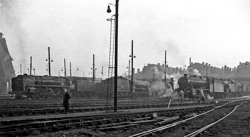 Willesden Locomotive Depot. View eastward in the Locomotive Yard: the coaler is on the extreme left and the straight and roundhouse Sheds are over to the right. This was a major BR (LMR) Depot, the principal Depot of the Western Division (London District), coded 1A by the LMS and BR (LMR). It provided freight locomotives principally, but also some passenger motive power, for the London end of the West Coast Main Line. The Depot was still very active on my visit in 1962, but it closed on 27/8/65b - before main-line electrification reached London; the site later became a Freightliner Depot. In 1954 Willesden had 126 steam locomotives:- 21 4-6-0s, 37 2-8-0s, 10 2-6-0s, 10 0-8-0s, 10 0-6-0s, 2 2-6-4Ts, 23 2-6-2Ts (mainly used for Euston empty stock workings) and 13 0-6-0Ts; in addition there were 17 0-6-0 Diesel-Electric shunters, including many that had been at work in the great Brent (Sudbury) Sidings since the late 1930s. Prominent in this photograph are:- Standard 'Britannia' Class 7 4-6-2 No. 70004 'William Shakespeare', Stanier Class 5 4-6-0 No. 45198 and Stanier 8F 2-8-0 No. 48016.